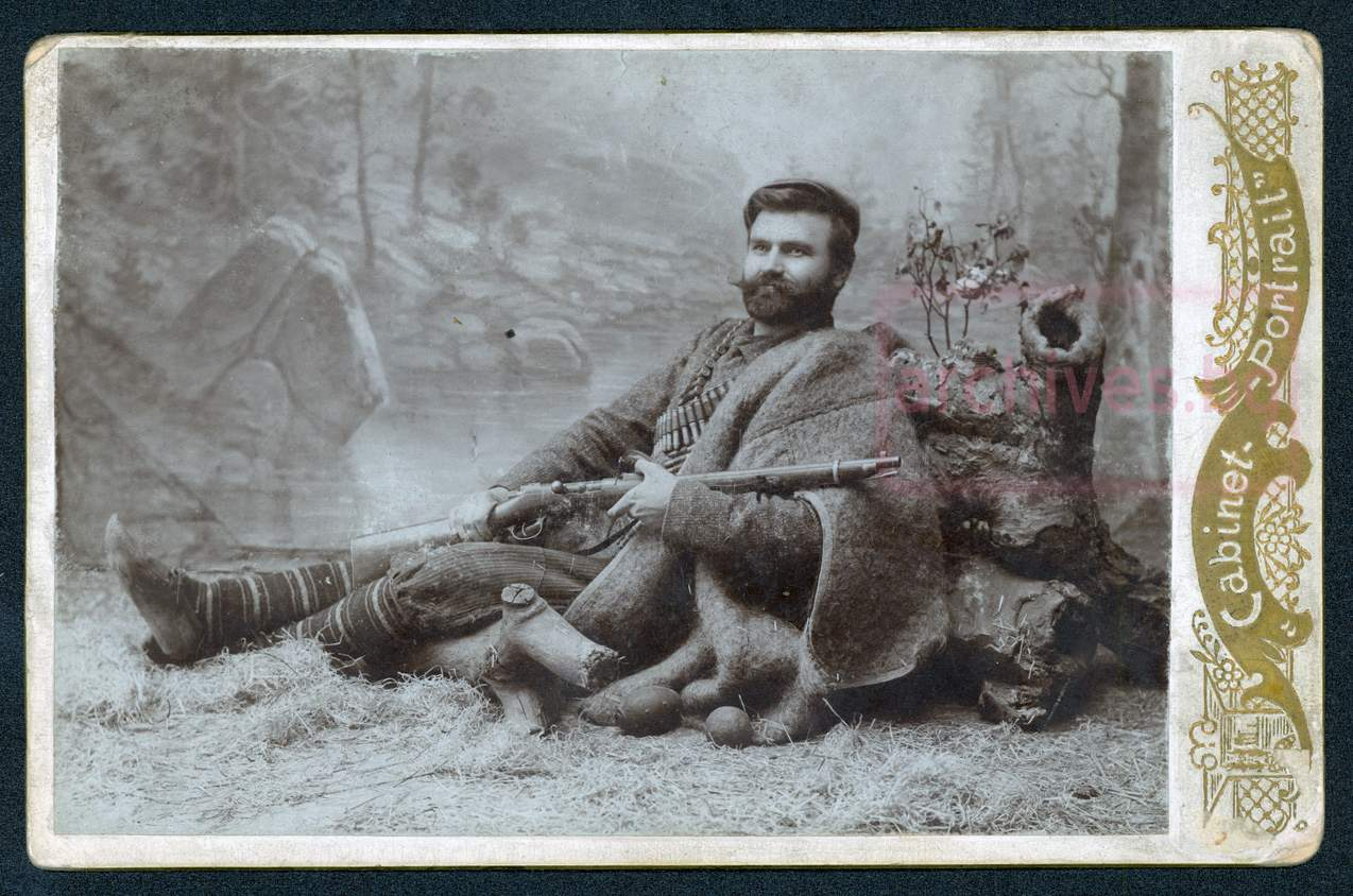 bulgarian revolutionary